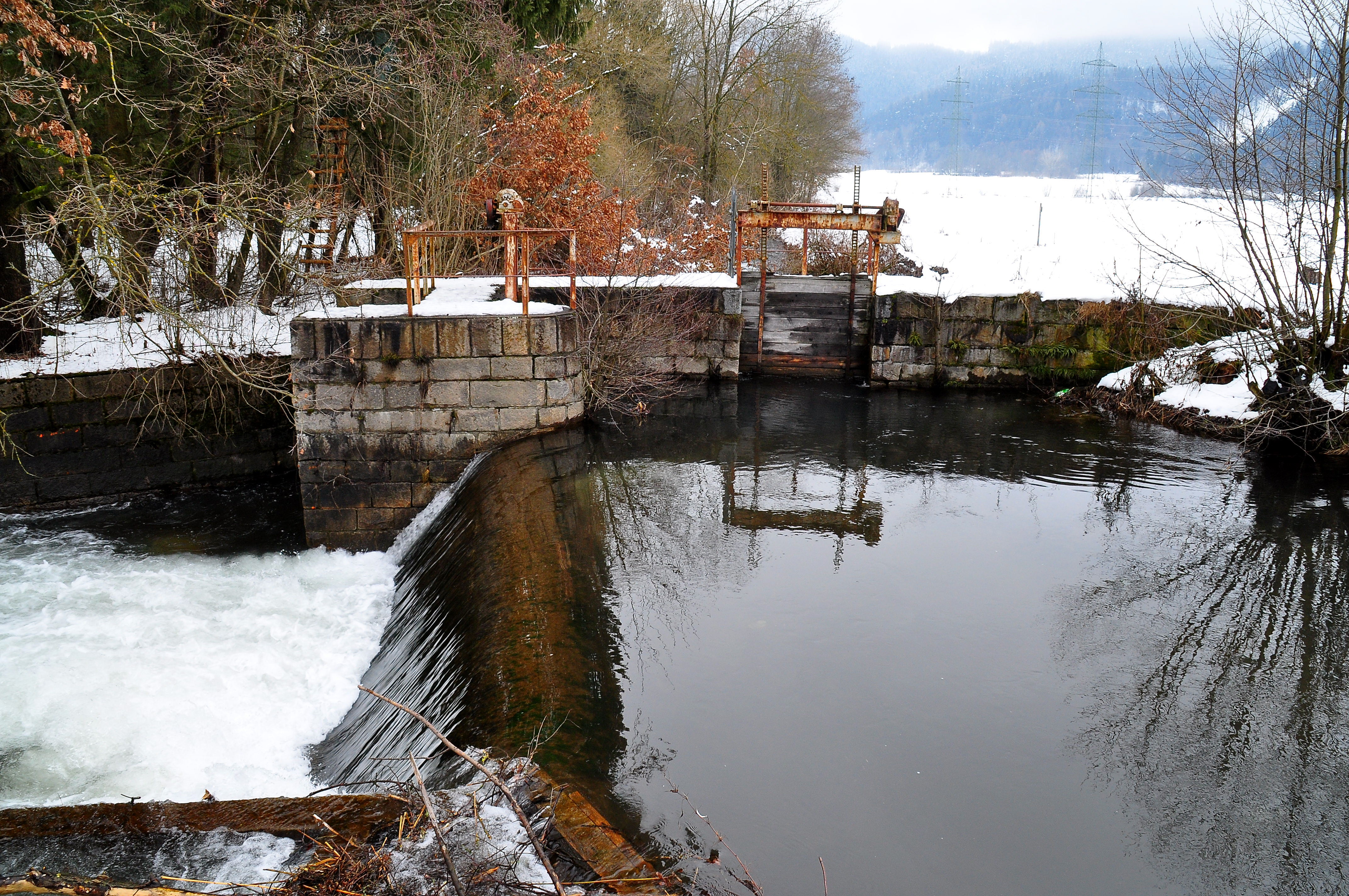 Weir on the eastern part of the river Glanfurt, splitting off the Ebenthal canal as a water supply for the Ebenthal mill, in the 11th district "Sankt Ruprecht" of the Carinthian capital Klagenfurt, Carinthia, Austria